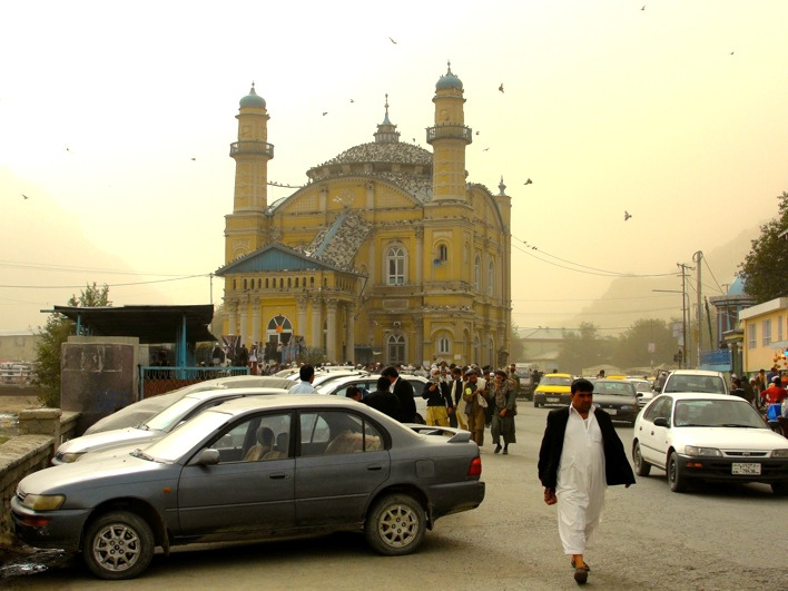 Mosque of the King of Two Swords, built in 1920 during the era of modernisation in Kabul